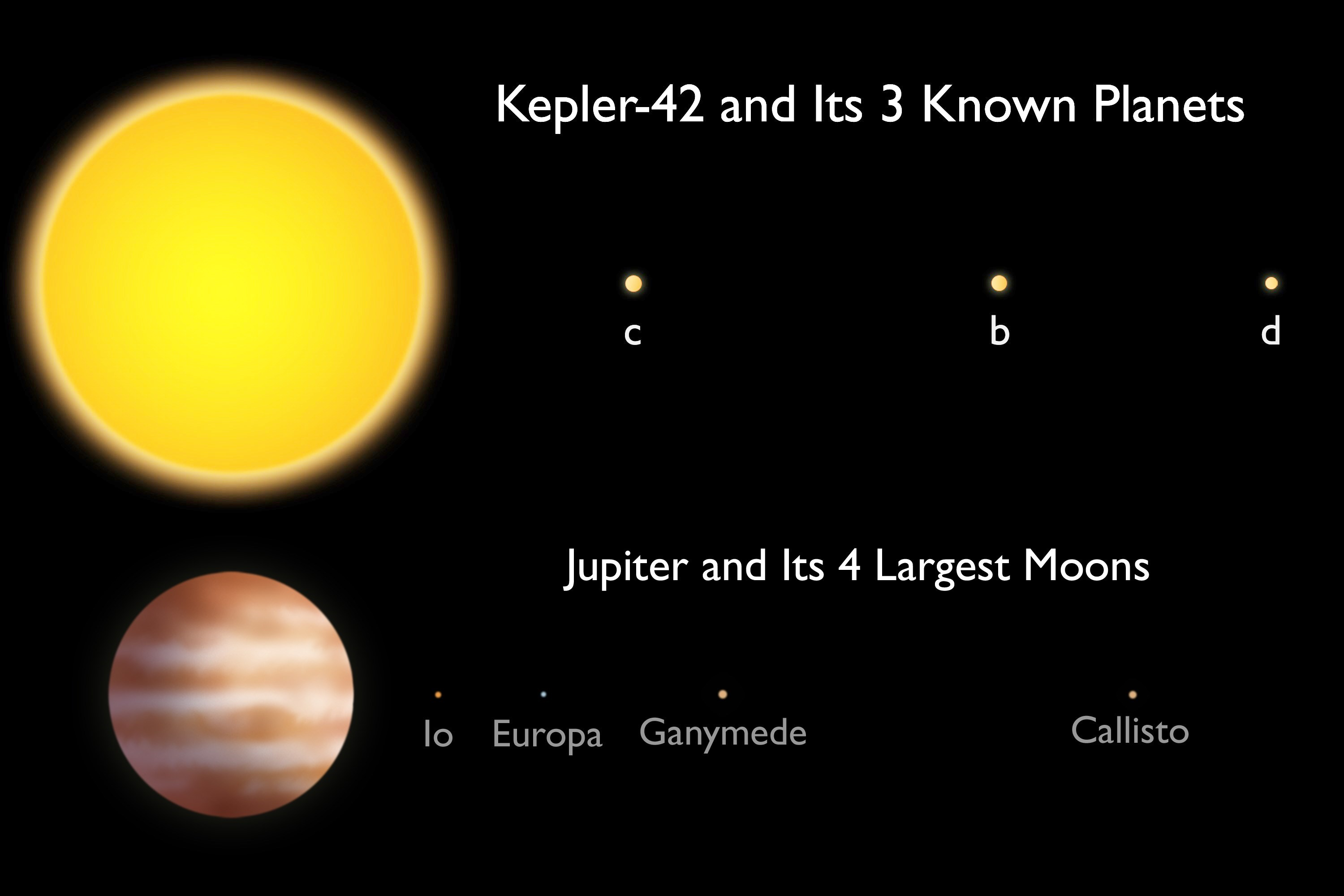 This artist's concept compares the Kepler-42 (formerly known as KOI-961) planetary system to Jupiter and the largest four of its many moons. The Kepler-42 planetary system hosts the three smallest planets known to orbit a star beyond our sun (called Kepler-42b, Kepler-42c, Kepler-43d; formerly called KOI-961.01, KOI-961.02 and KOI-961.03). The smallest of these planets, Kepler-42d, is about the same size as Mars. All three planets take less than two days to whip around their star. The planets were discovered using data from NASA's Kepler mission and ground-based telescopes. The Kepler-42 star is a tiny "red dwarf," just one-sixth the size of our sun. This planetary system is the most compact detected to date, with a scale closer to Jupiter and its moons than another star system. The planet and moon orbits are drawn to the same scale. The relative sizes of the stars, planets and moons have been increased for visibility.